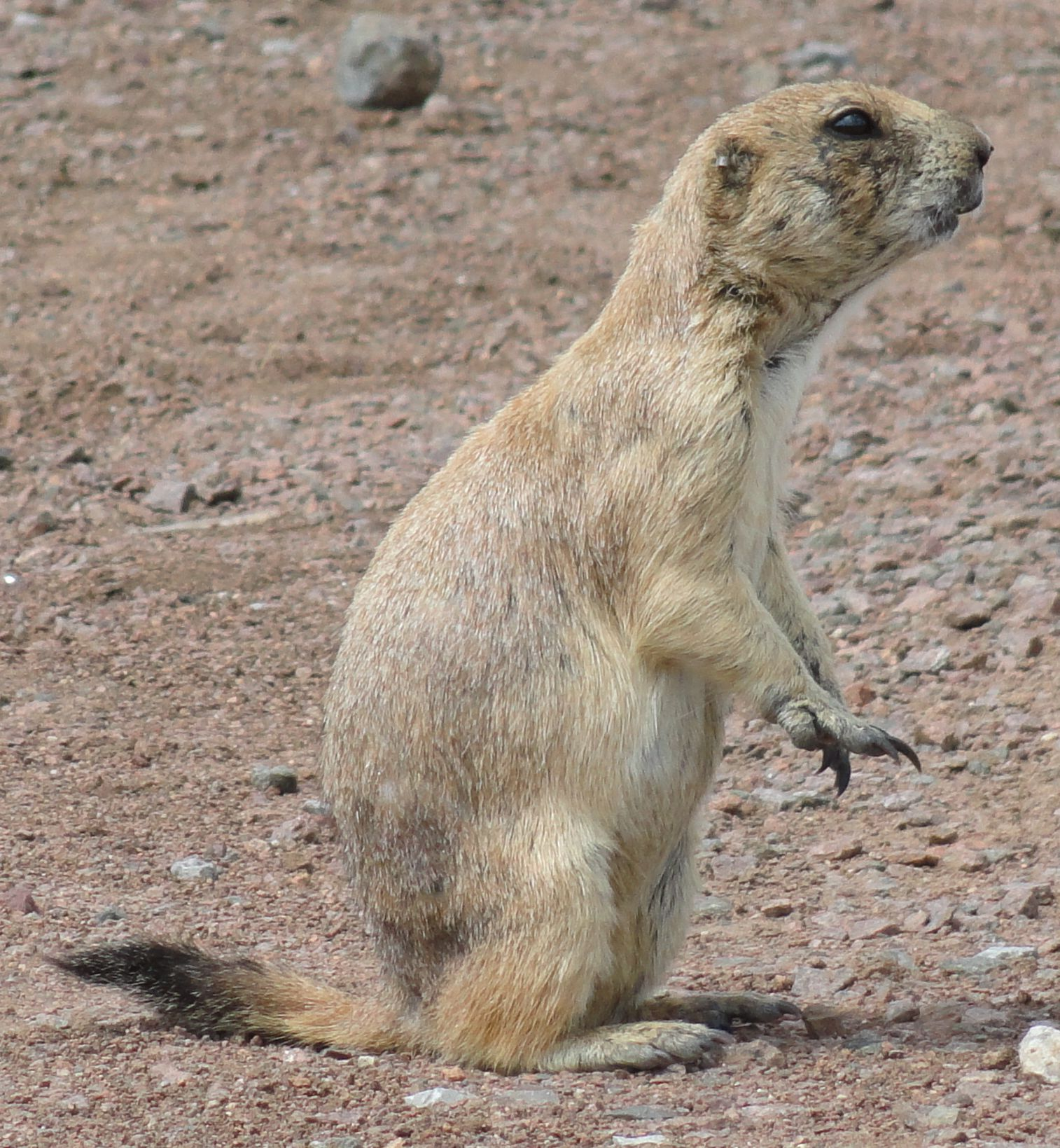 A Black-tailed Prairie Dog photographed at Wichita Mountain Wildlife Refuge. Notice that it has an ear tag.